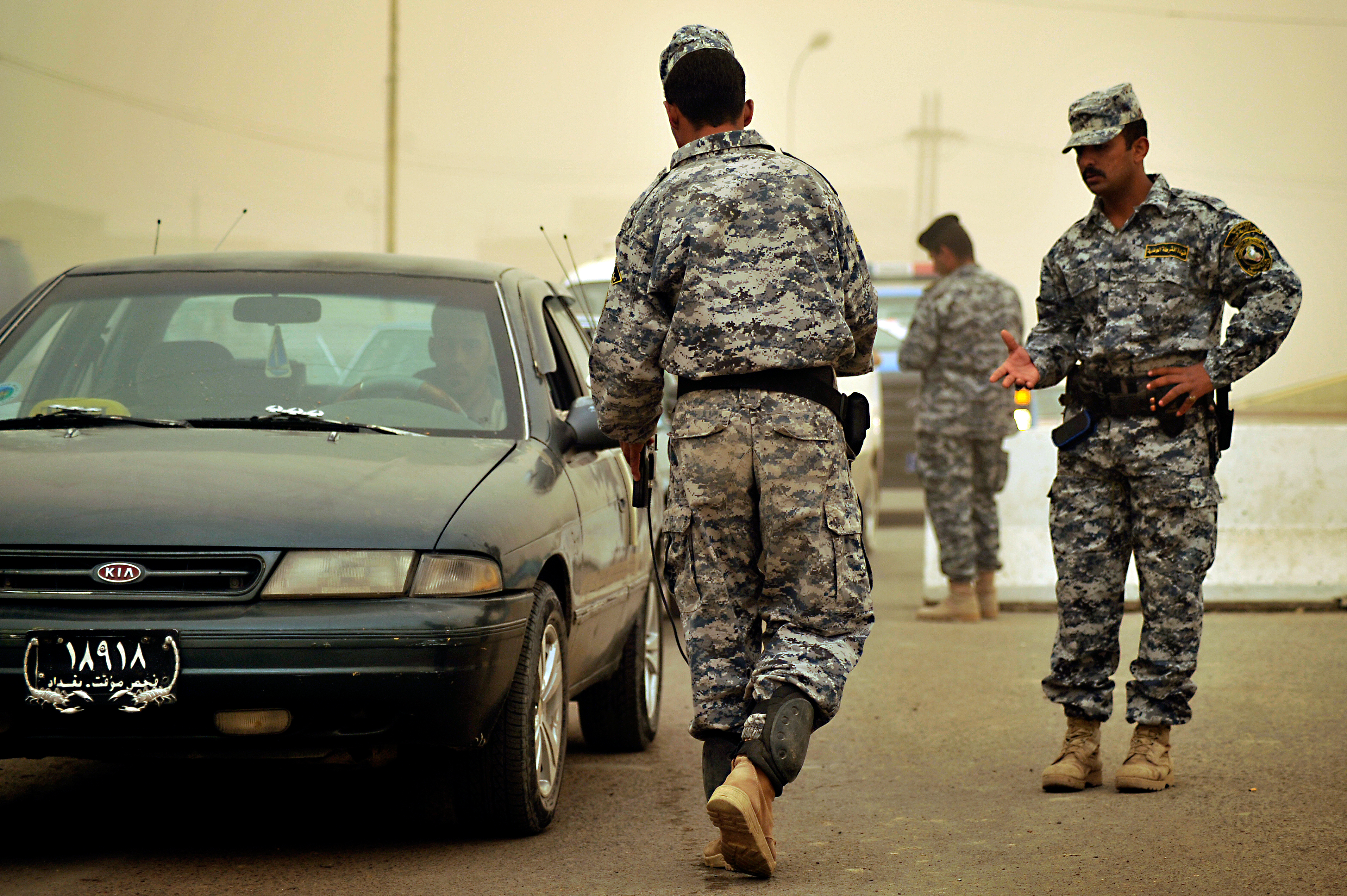 Iraqi soldiers and U.S. Soldiers hold random security checks during a security checkpoint mission in Abu T'Shir, Iraq.